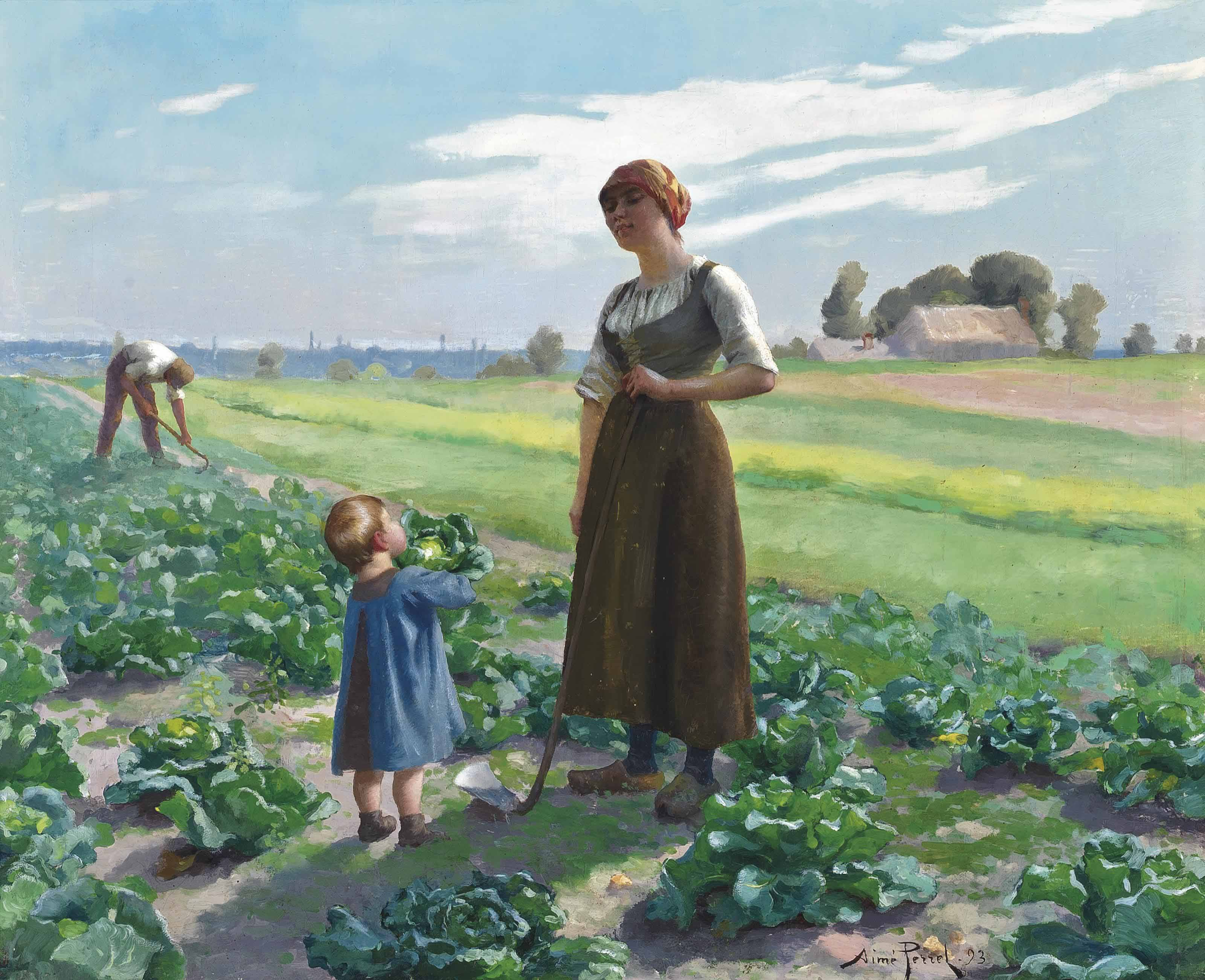 The cabbage patch.